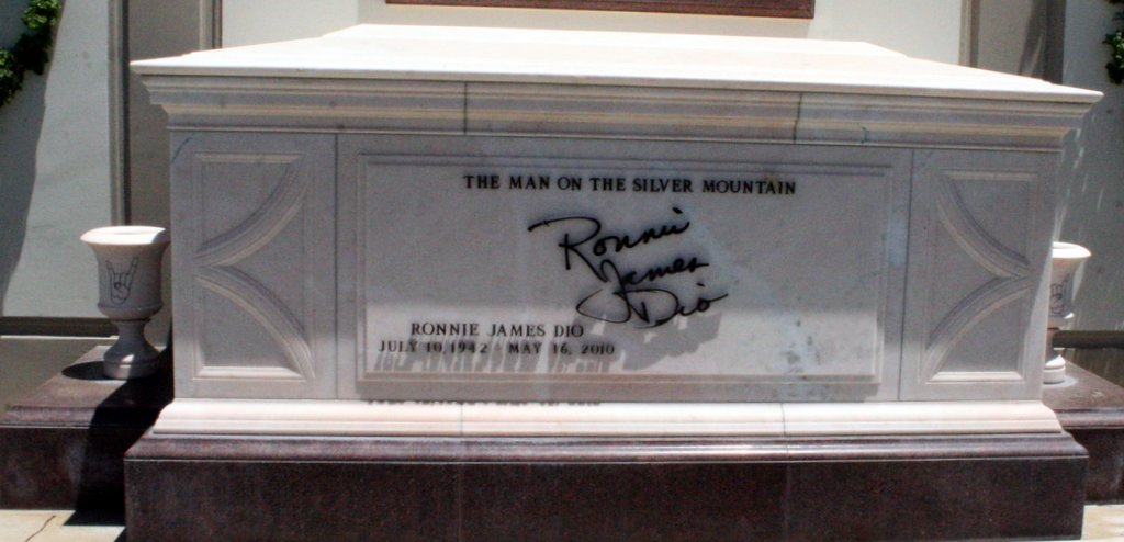 Tomb of Ronnie James Dio. Note "throwing horns" sign on flanking urns.